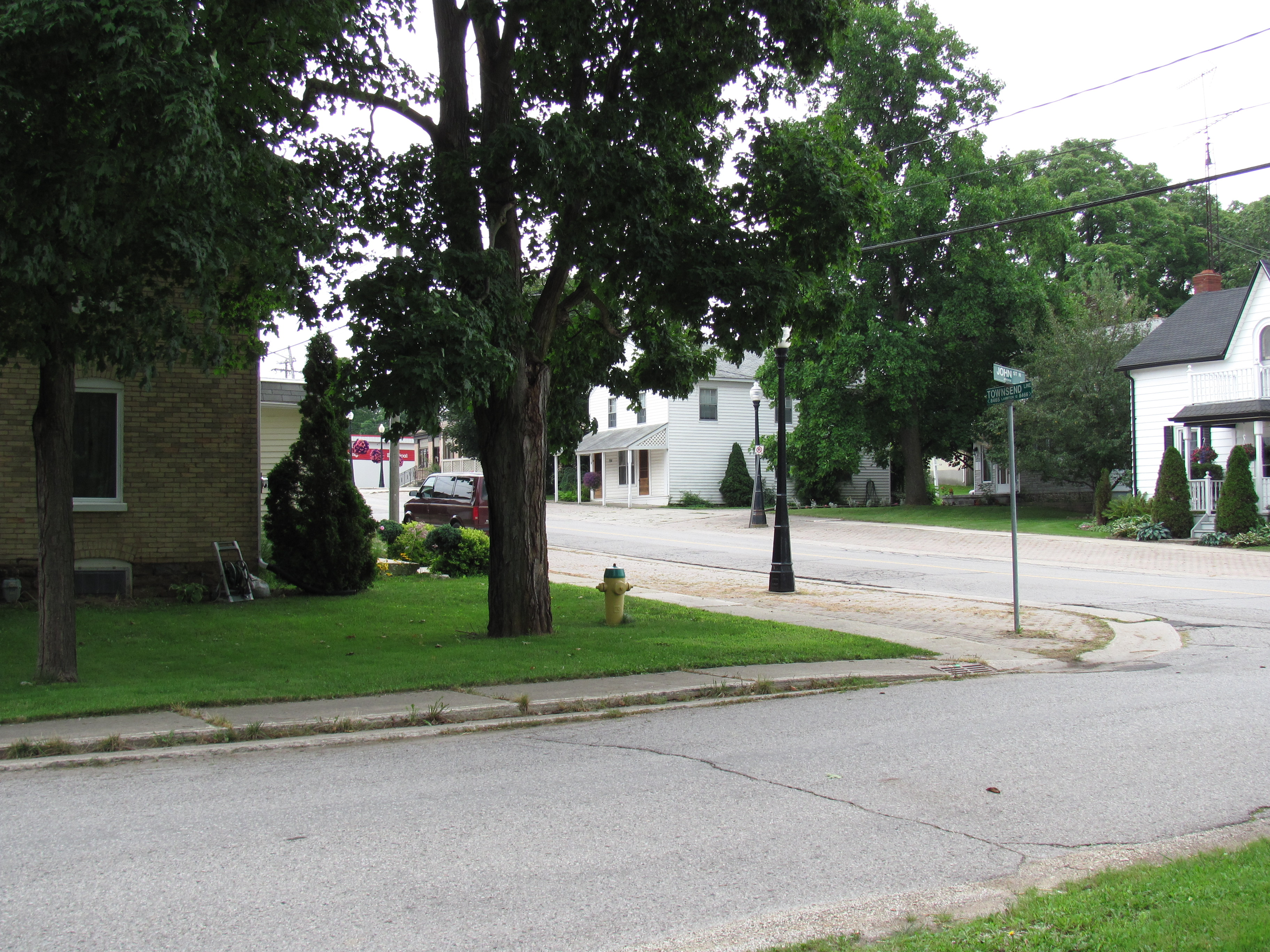 This photograph was taken looking in a southeasterly direction to the corner of John Street and Townsend Line in Arkona, Ontario, Canada.